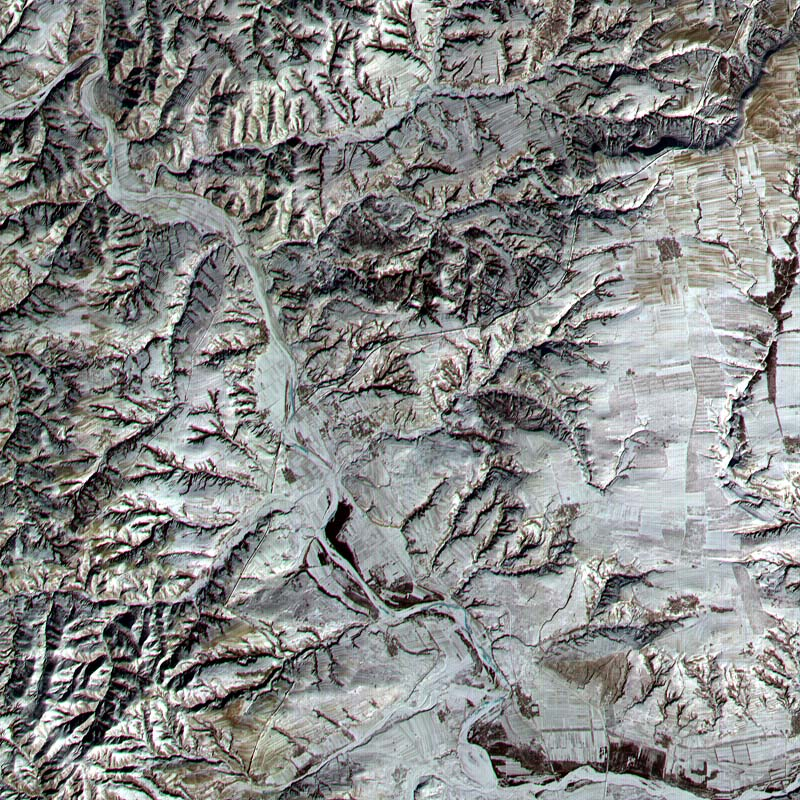 A satellite image of the Great Wall of China. This Advanced Spaceborne Thermal Emission and Reflection Radiometer (ASTER) sub-image covers a 12 × 12 km (7.5 × 7.5 miles) area in Northern Shanxi Province, China, and was acquired January 9, 2001. The low sun angle and light snow cover highlight a section of the Great Wall, visible as a black line running diagonally through the image from lower left to upper right. The Great Wall is more than 2000 years old and was built over a period of 1000 years. Stretching 7240 km (4500 miles) from Korea to the Gobi Desert, it was first built to protect China from marauders from the north.